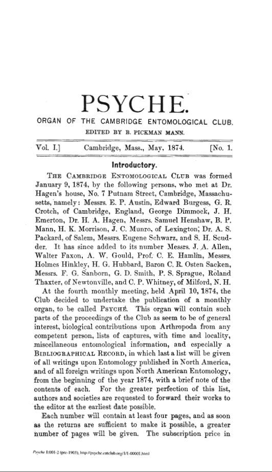 Cover page of Volume 1, Number 1 of Psyche. Extracted from the PDF.